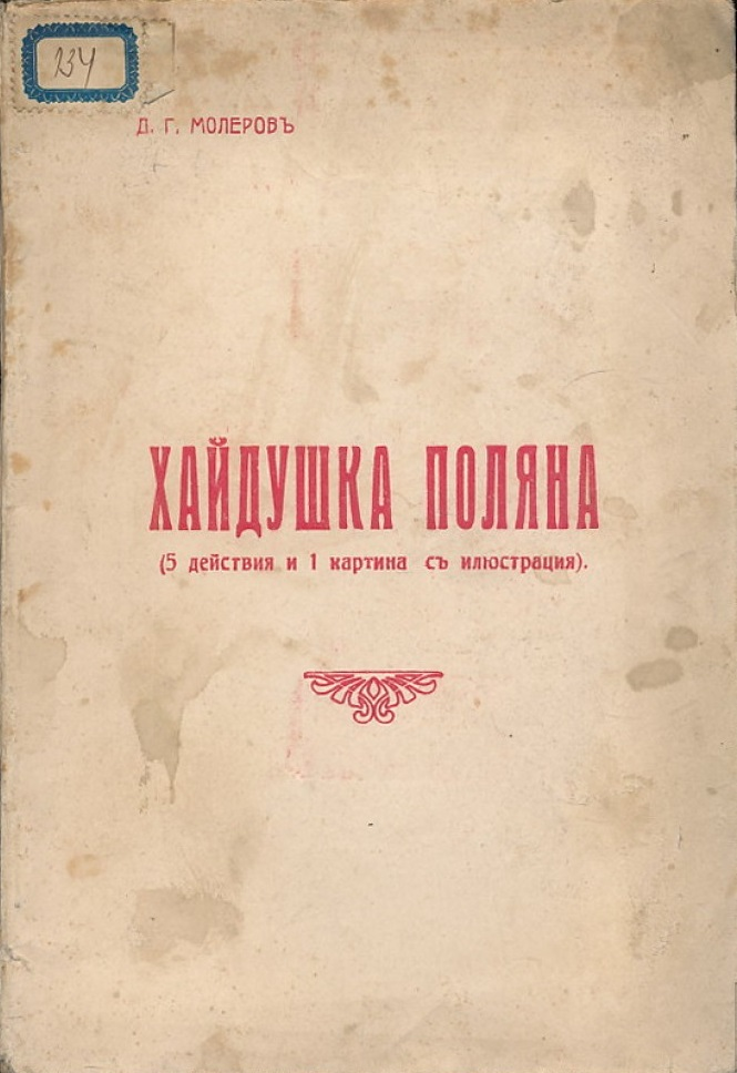 Haydushka_Polyana